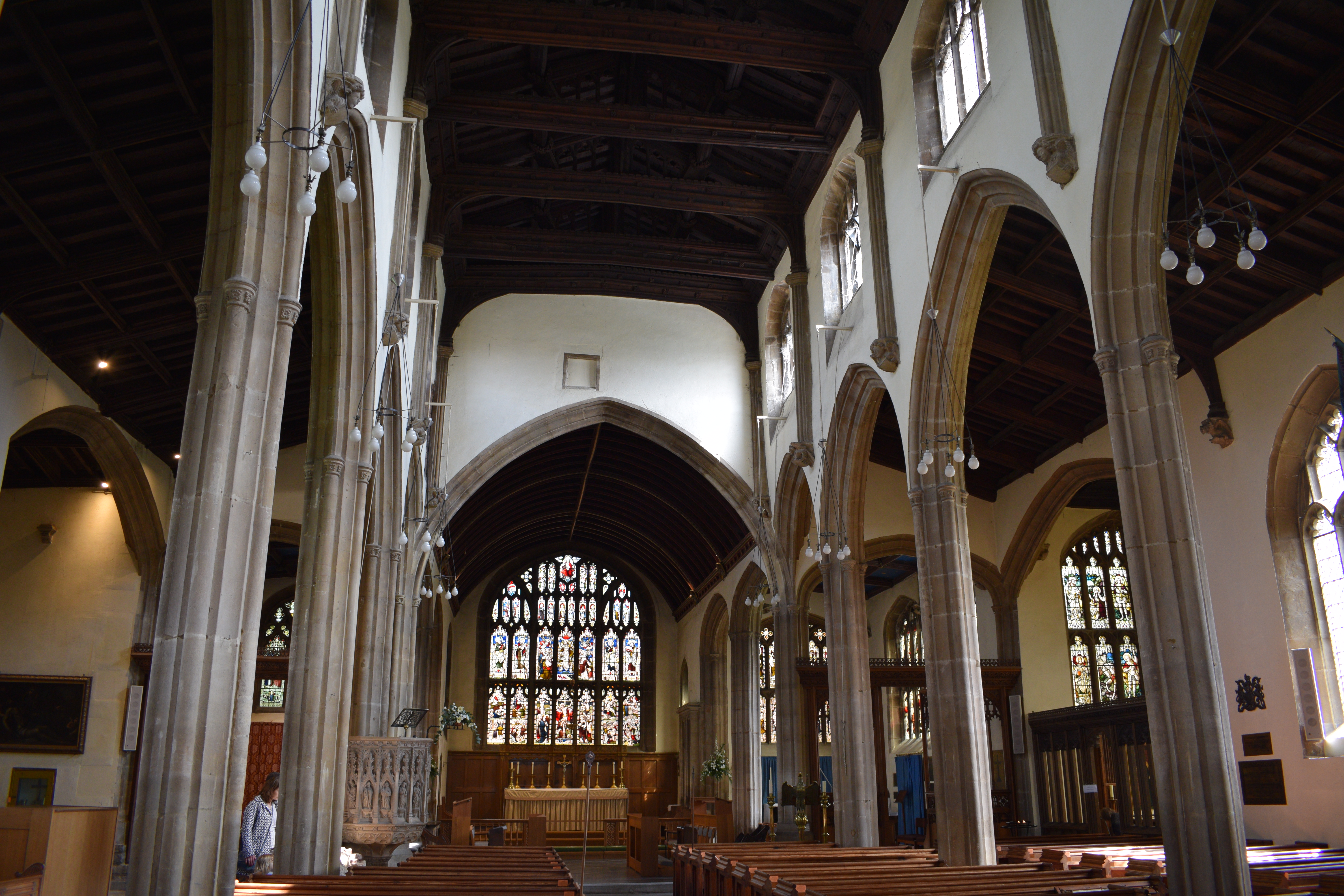 Glastonbury.